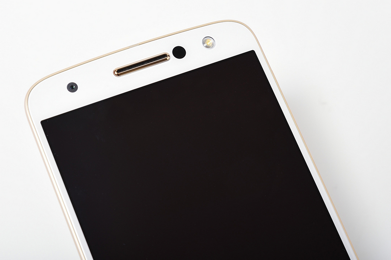 Moto Z